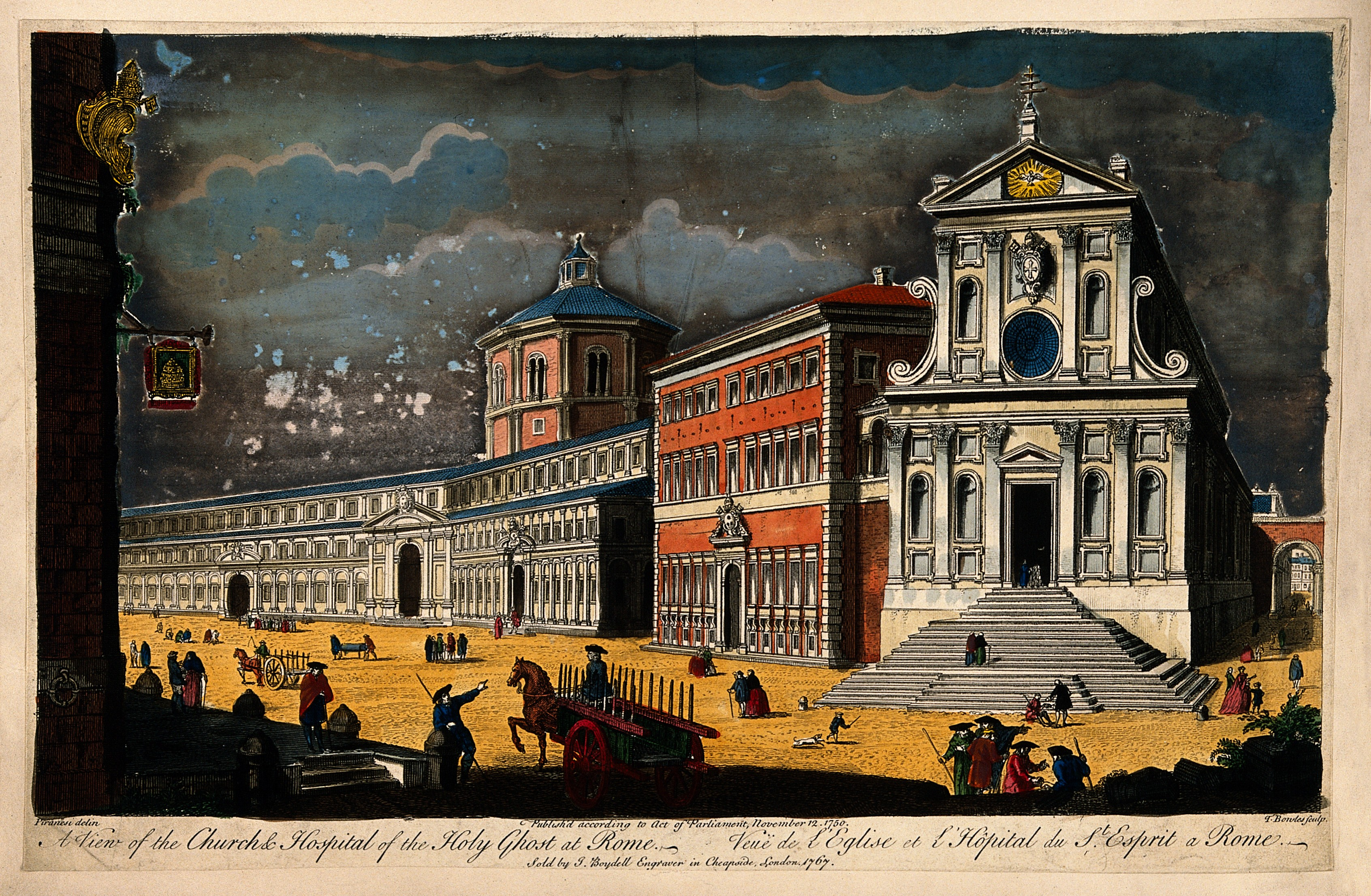 Church and Hospital of the Holy Ghost, Rome: panoramic views. Coloured engraving by T. Bowles, 1750, after G.B. Piranesi. Iconographic Collections Keywords: Italy; Architecture as Topic; Giovanni-Battista Piranesi; piranesi, giovanni-battista; RENAISSANCE; Rome; ARCHITECTURE; ic; Thomas Bowles